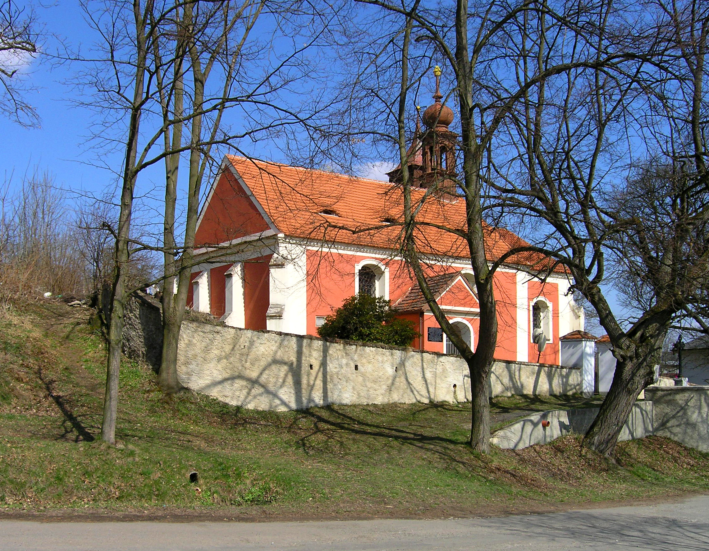 Church in Železná village, Czech Republic